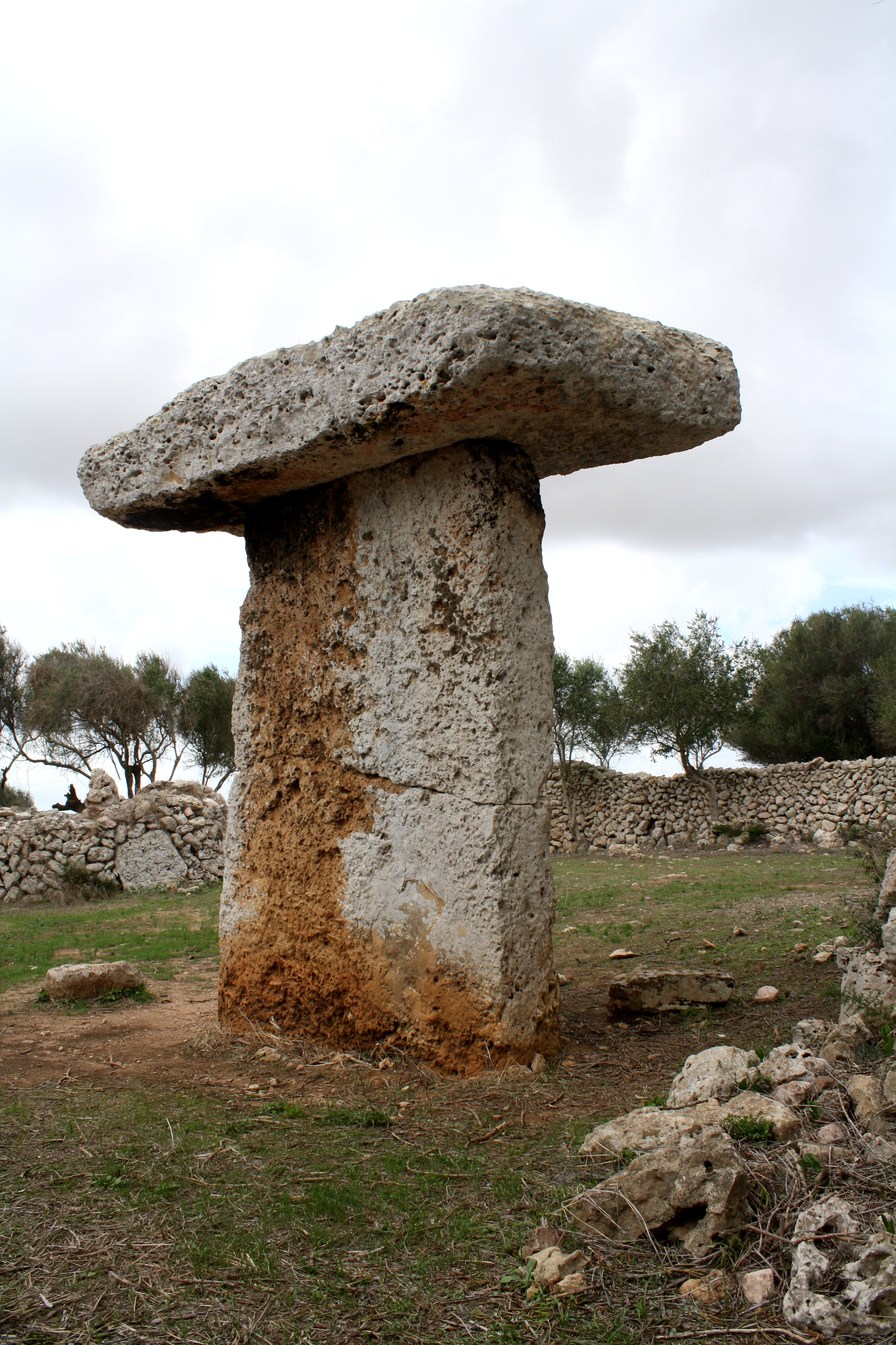 Taula of the prehistoric settlement Torretrencada, Ciutadella, Minorca.